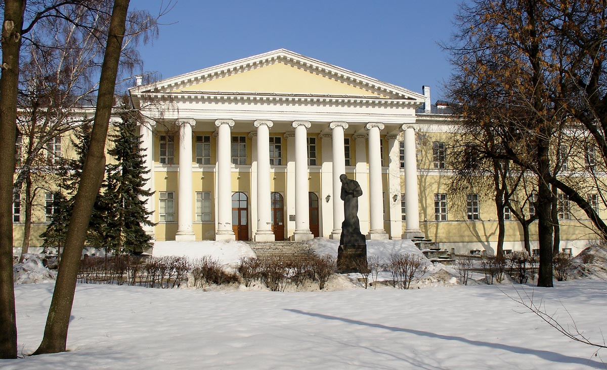 Mariinsky Hospital (with monument to Fyodor Dostoyevsky), Moscow. Dostoyevsky was born here. The statue was created by Sergey Merkurov in 1919 at the Tsvetnoy Boulevard, then was moved to Dostoevsky Street 2 near the Mariinsky Hspital.[1]